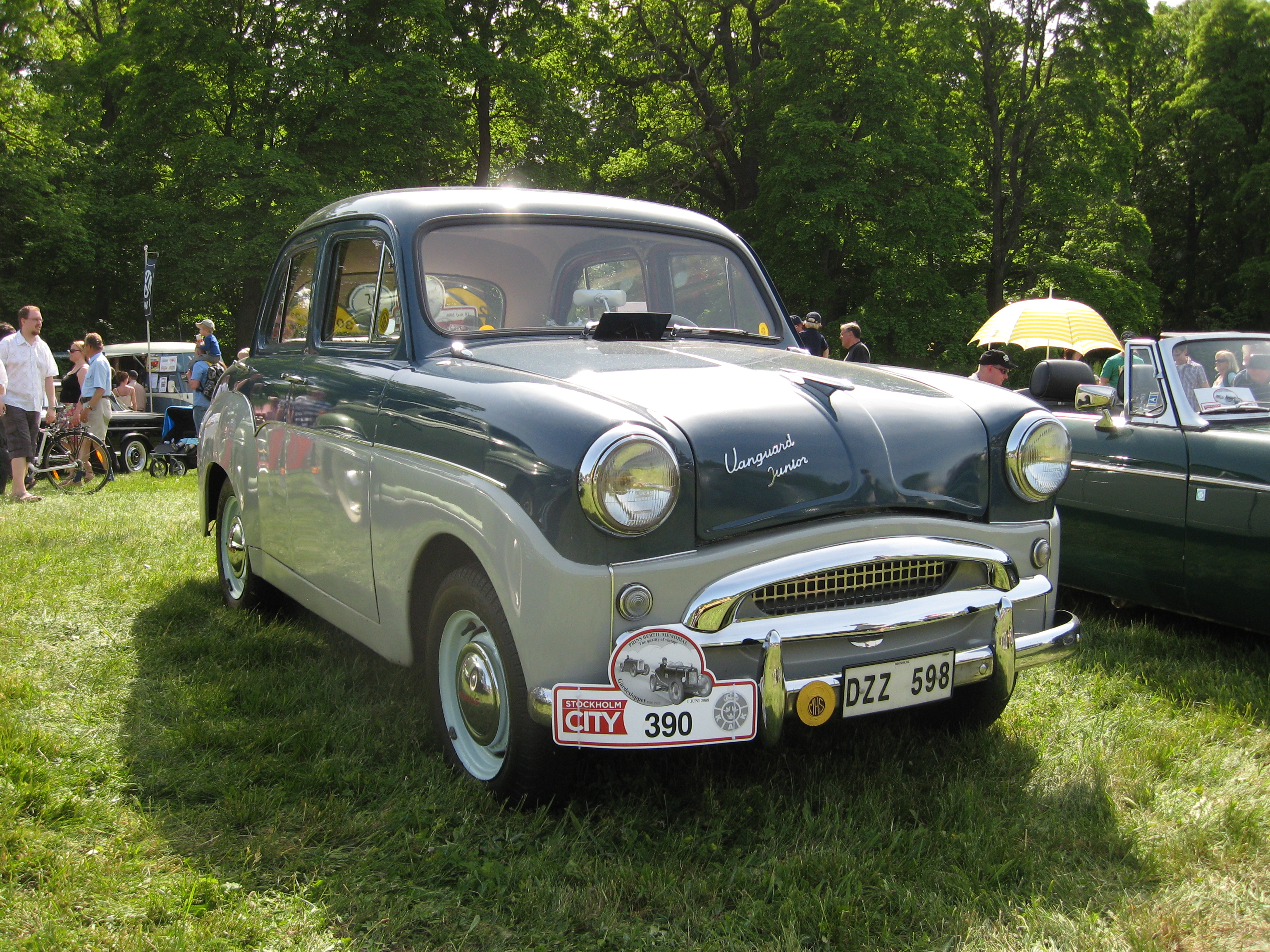 1956 Standard Vanguard Junior photographed at Prins Bertil Memorial 2008.